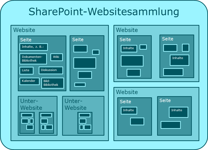 Logical Structuring of Information within SharePoint Websites